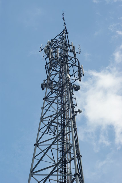 Fire Tower, Chawton Park Woods, Hampshire Standing on the highest point in the area, and surrounded by trees, there must be a great view from the top.